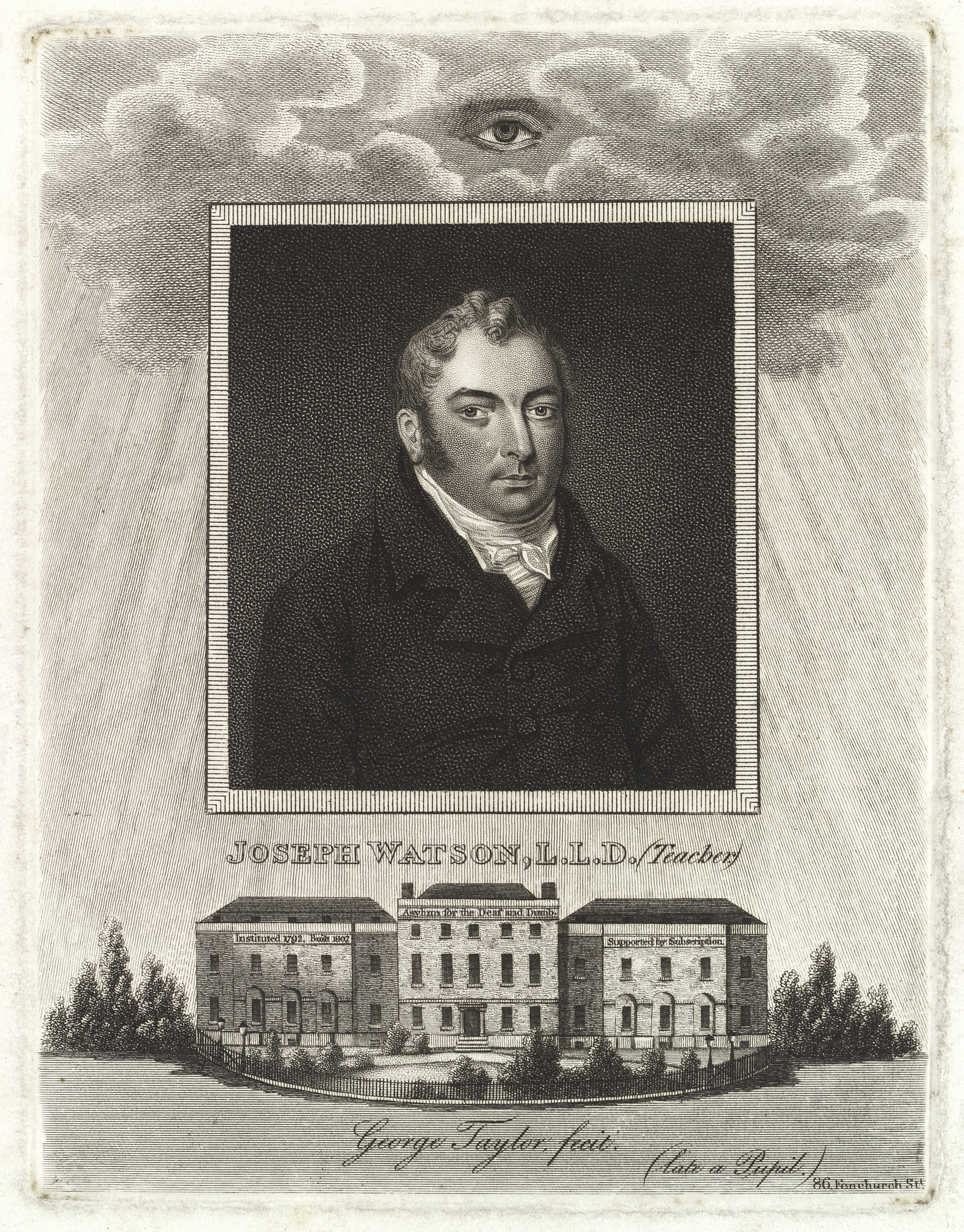 Joseph Watson, and the Asylum for the deaf and dumb, Camberwell, in which he taught. The Deaf and Dumb Asylum was founded at Fort Place, Bermondsey in 1792 by the Rev. John Townsend. In 1807-1809 new, larger, premises were constructed in Kent Road (later the Old Kent Road) to the designs of Thomas Swithin (Gentleman's Magazine 1807, ii, 678) The first teacher was Joseph Watson, who is portrayed here: his book Instruction of the deaf and dumb appeared in 1809 A stipple engraving with etched border. Above his portrait, the eye of god (a masonic motif?), and below, a view of the asylum. Iconographic Collections Keywords: Joseph Watson; Deaf; George Taylor; Portraiture; Thomas Swithin; Asylum; Asylum for the Deaf and Dumb (Camberwell, London, England); Institutions